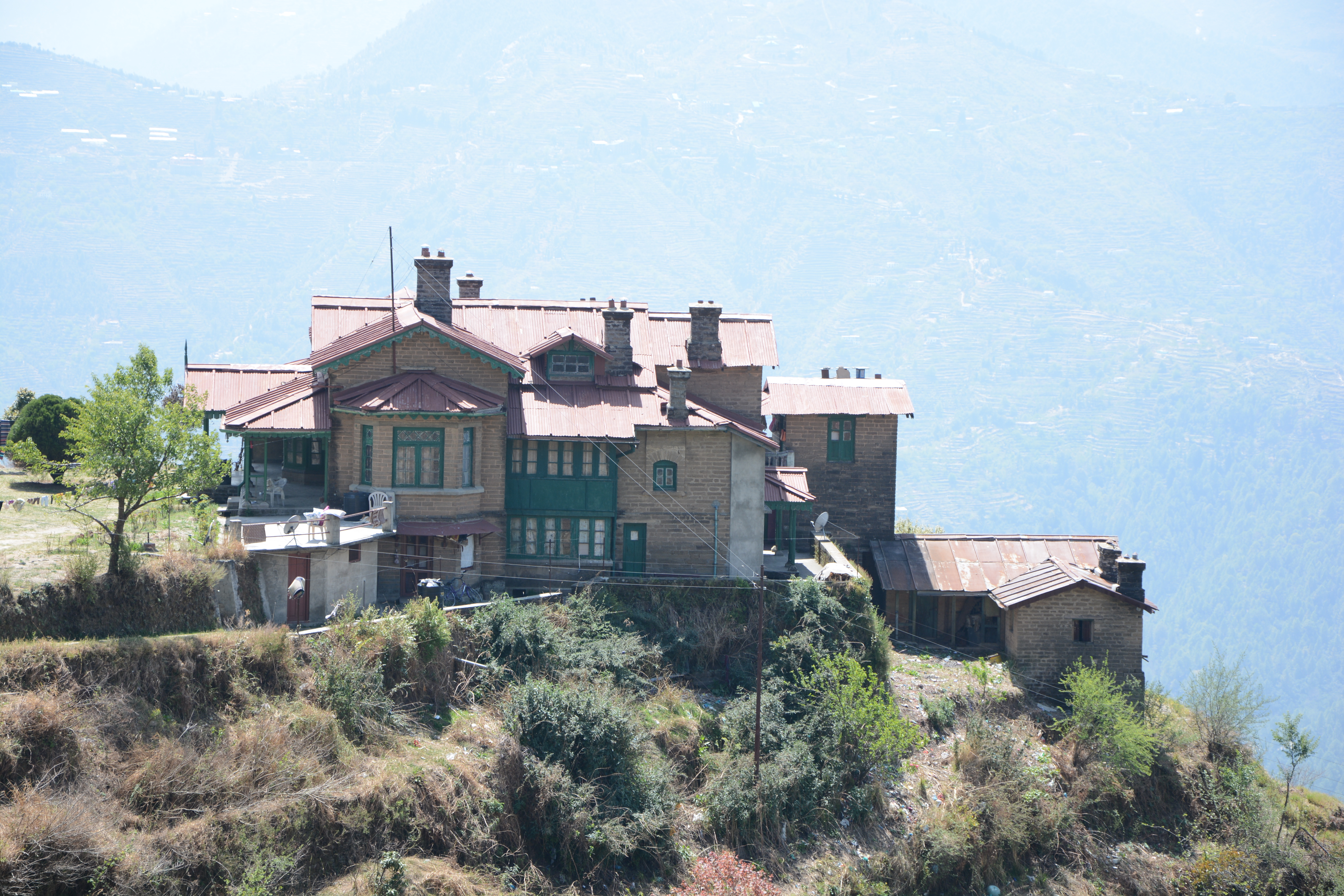 This is the house made on hill